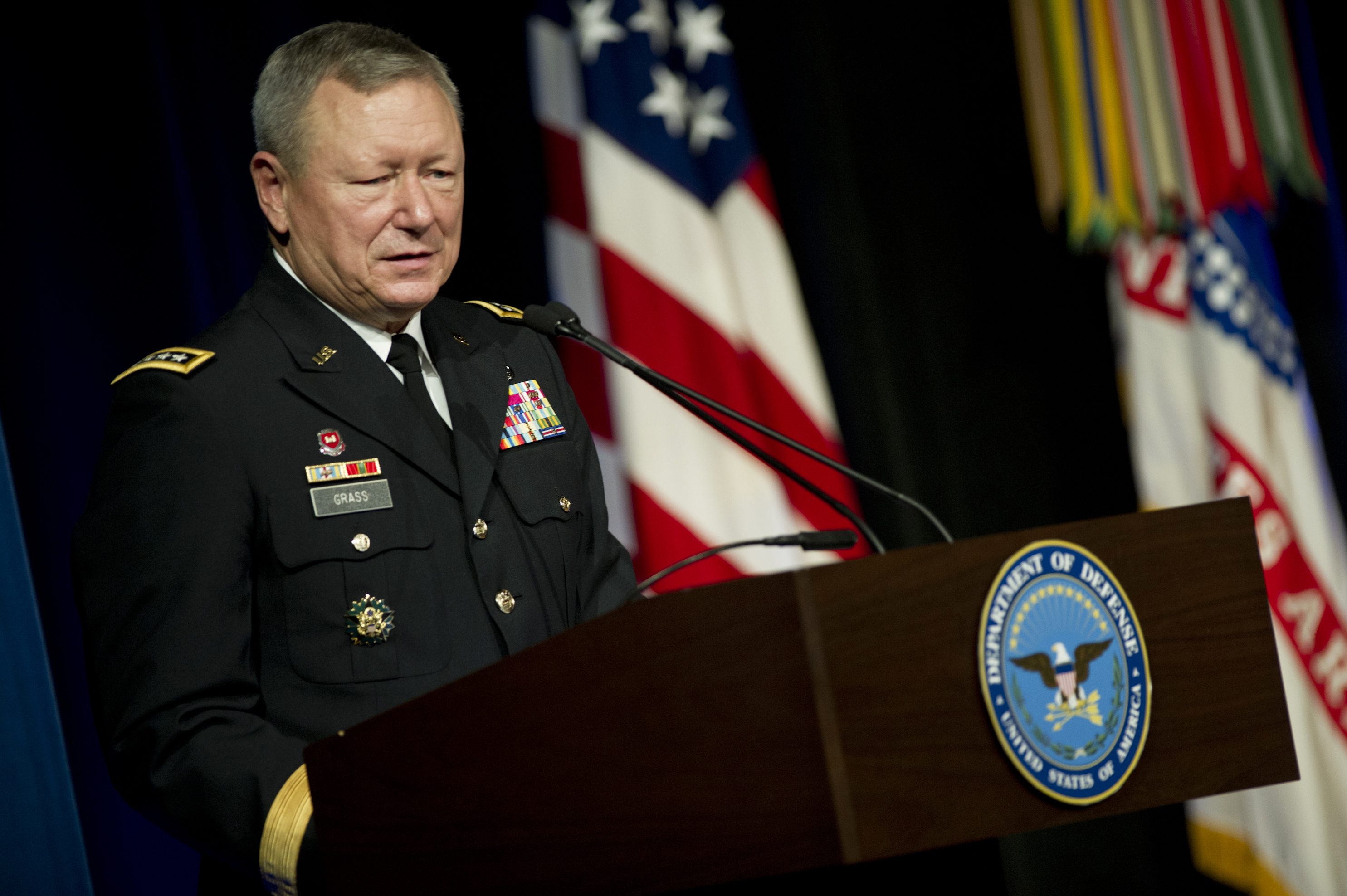 Army Lt. Gen. Frank J. Grass, incoming National Guard Bureau chief, delivers remarks at the change-of-responsibility ceremony for chief at the Pentagon, Sept. 7, 2012. Grass, who replaced Air Force Gen. Craig R. McKinley, received his fourth star during the event. DOD photo by U.S. Navy Petty Officer 1st Class Chad J. McNeeley